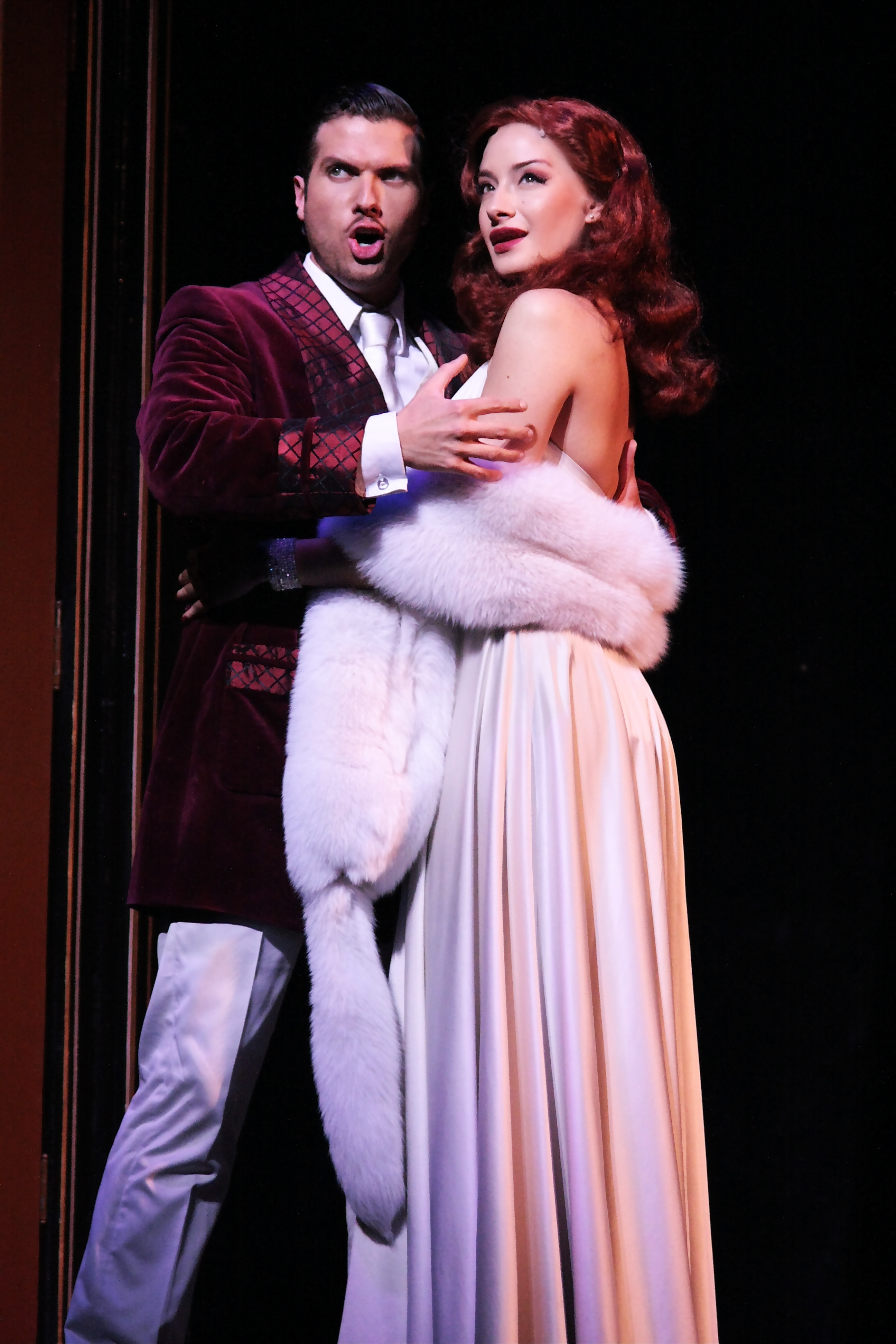 Cecilia de la Cueva (Úrsula) - Sweet Charity Mexico.